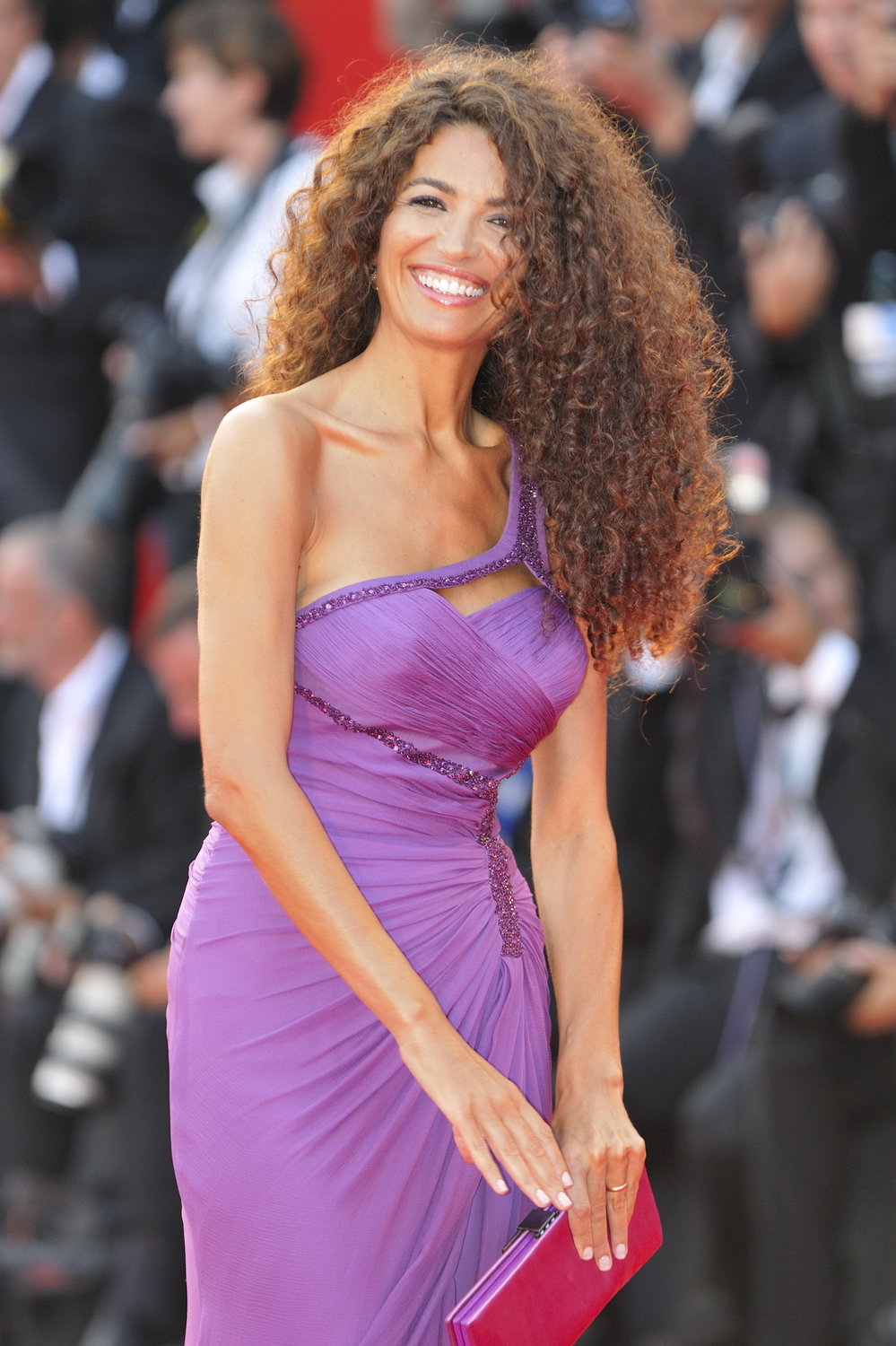 Afef Jnifen at the 2009 Venice Film Festival